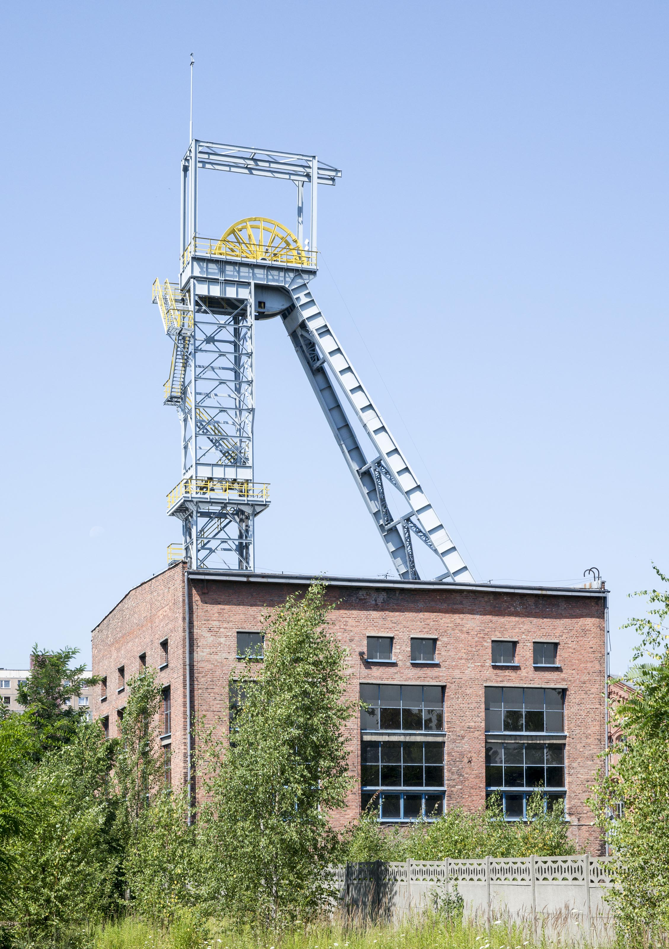 Mine Michal Shaft Krystin, Poland